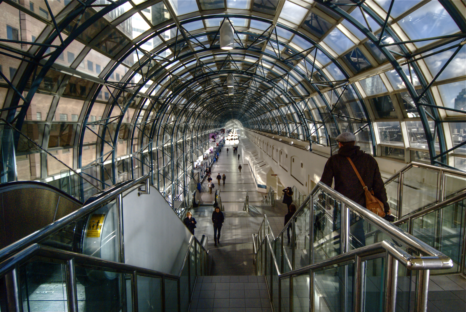 Santtu descending a flight of stairs in the skywalk leading to the Union Station in Toronto. December 2007.